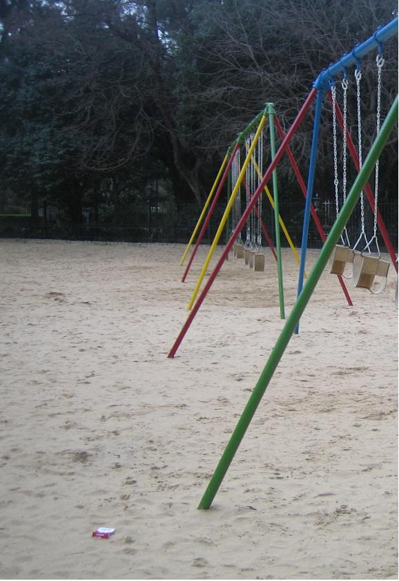 Sandplace